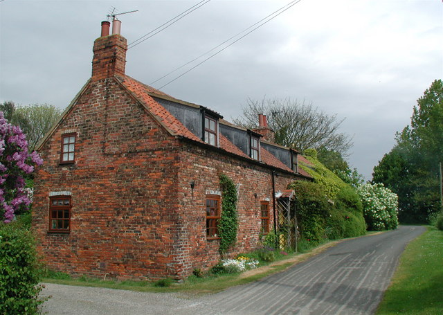 Boggle Lane, Sproatley, East Riding of Yorkshire, England.Witzend Cottage and Primrose Hill, two semi-detached cottages near the nurseries off the northeast corner of Boggle Lane.